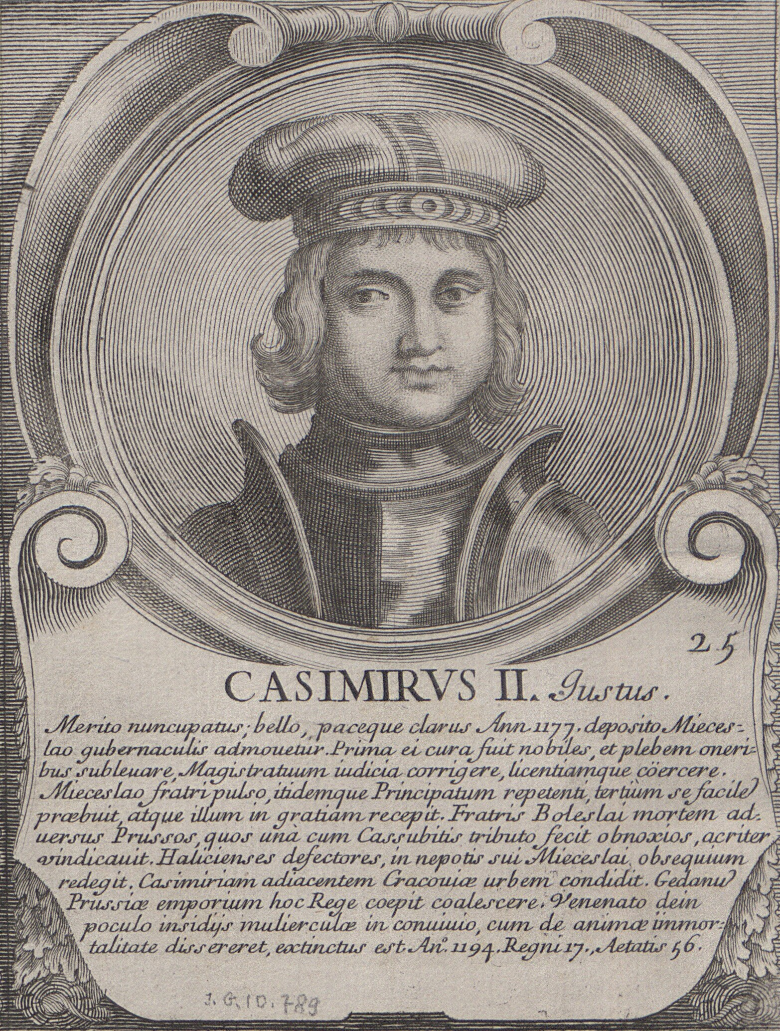 Duke Boleslaus IV of Poland